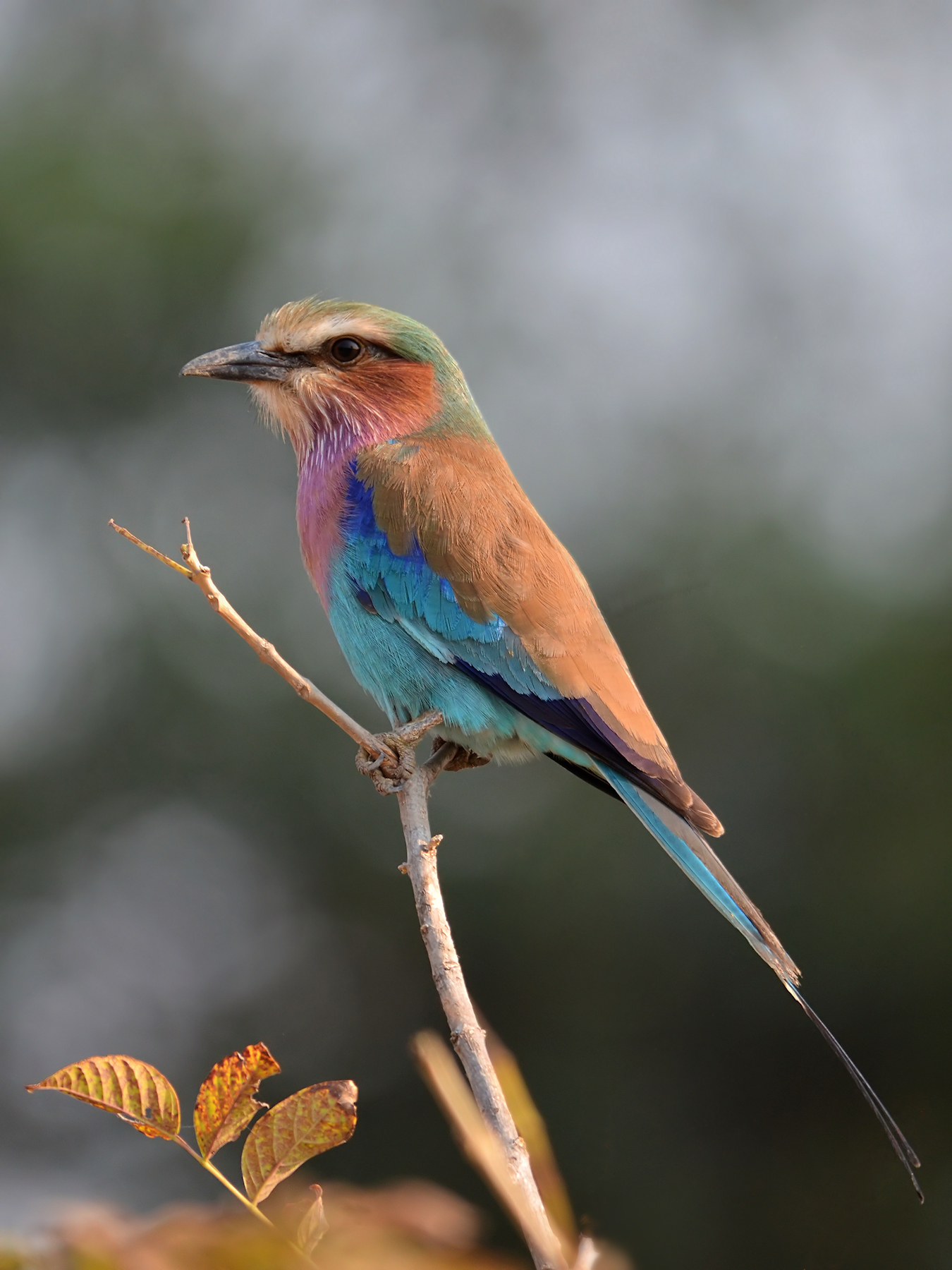 Lilac-breasted Roller at South Luangwa National Park, Zambia.